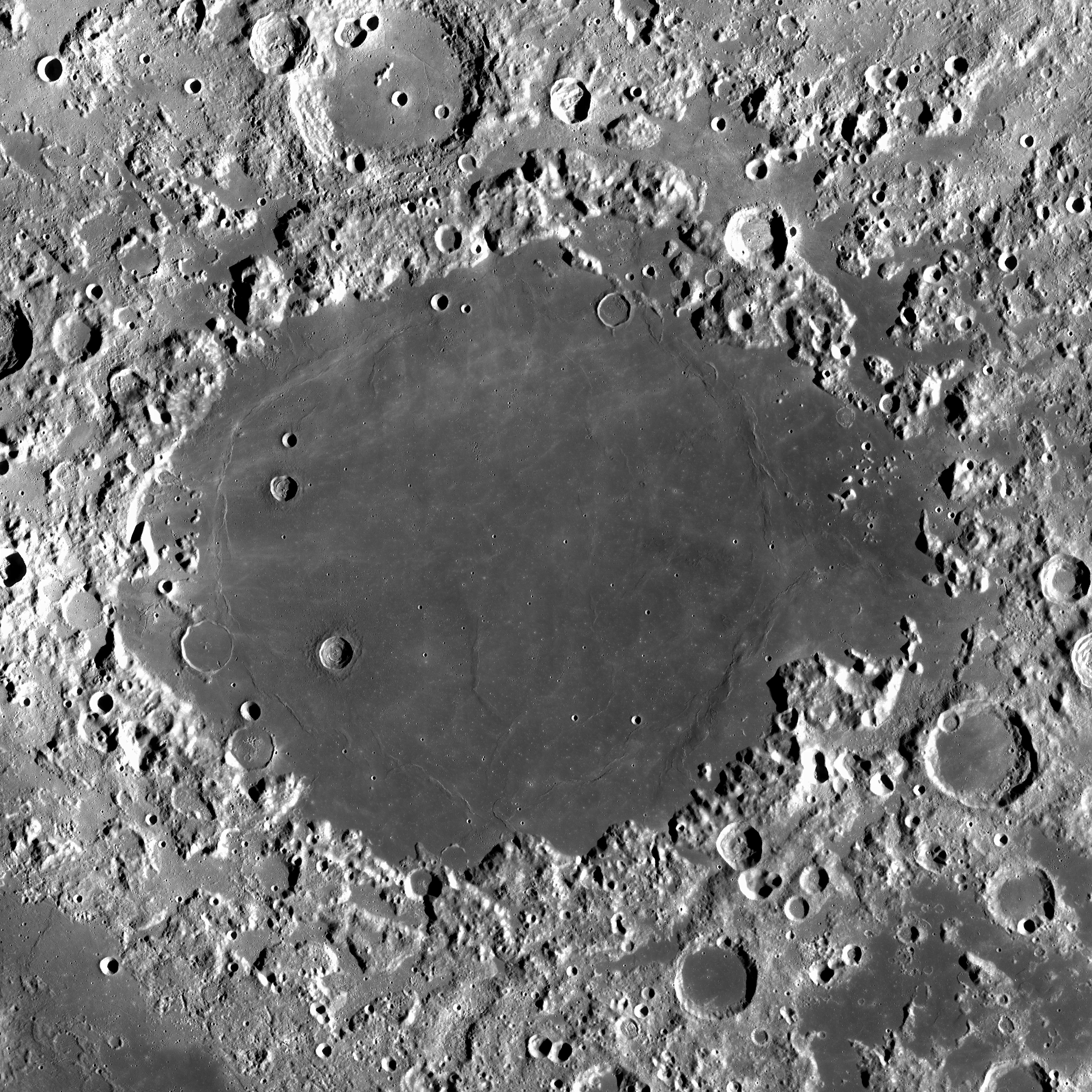 Mare Crisium on the Moon. Mosaic of photos by Lunar Reconnaissance Orbiter, made with Wide Angle Camera. Size of the image is 750×750 km, north is up.